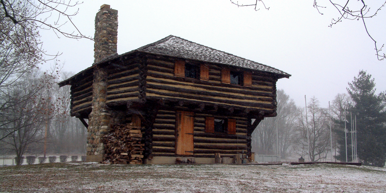 The blockhouse at Fort Ouiatenon in Tippecanoe County, Indiana, United States.